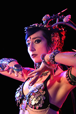 Picture of Ariellah at Tribal LA in Newbury Park, CA during performance, taken by author.